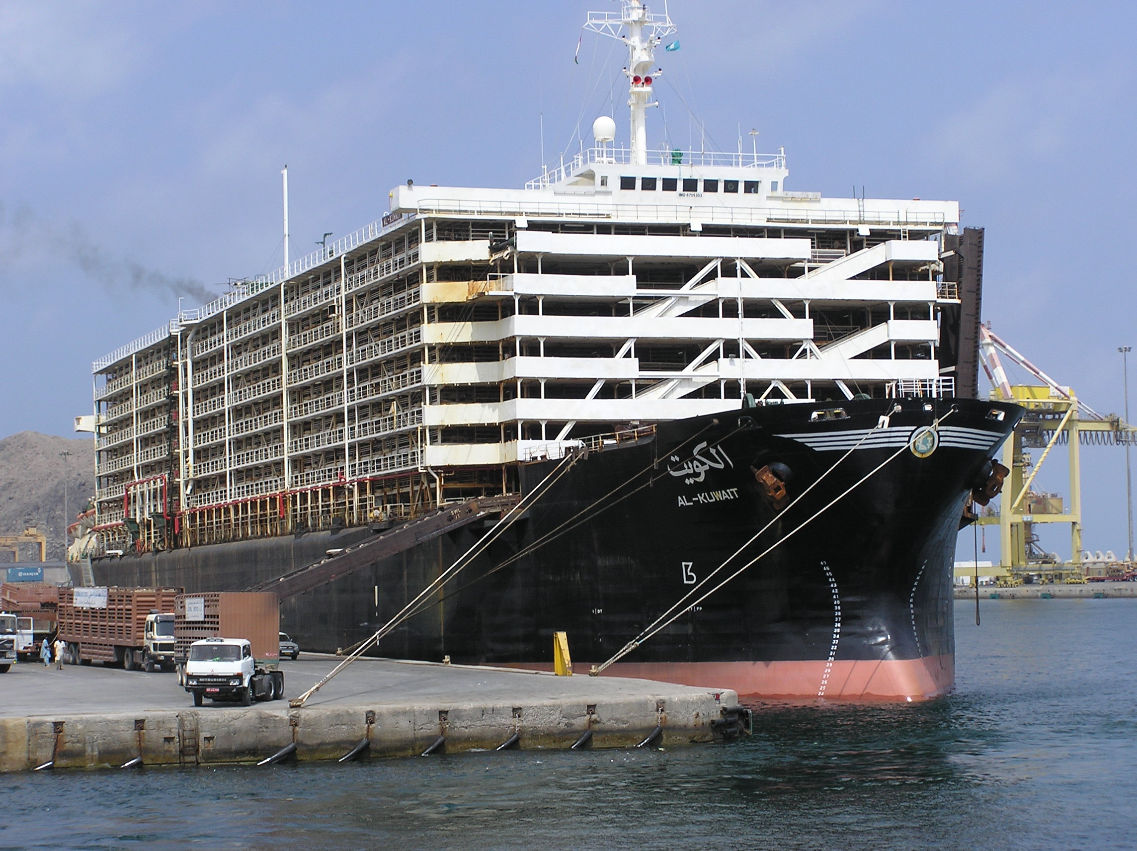 A ship carrying sheep from Australia docked in Oman